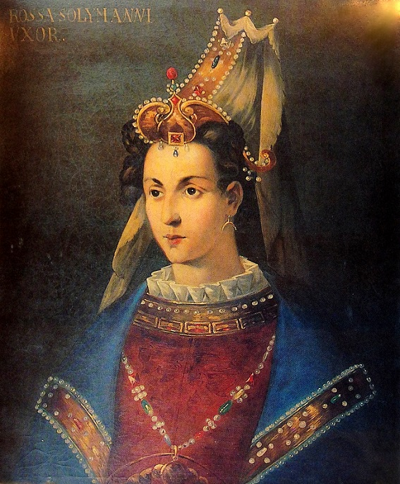 Portrait of Roxelana titled Rossa Solymannı Vxor.